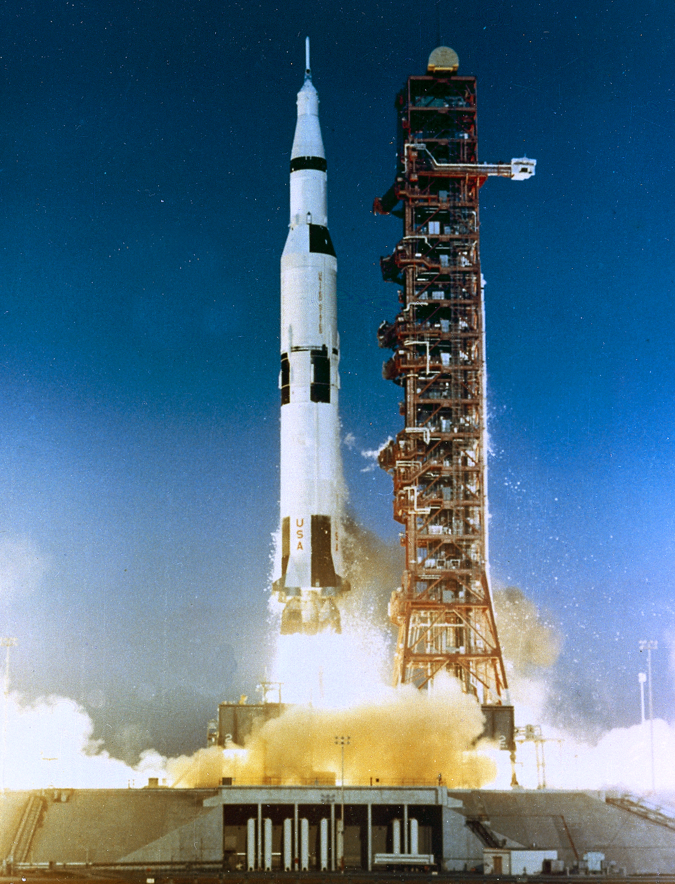 The second Saturn V launch vehicle (SA-502) for the Apollo 6 mission lifted off from the Kennedy Space Center launch complex on April 4, 1968. This unmanned Saturn V launch vehicle tested the emergency detection system in closed loop configuration.